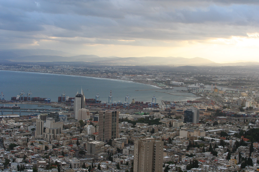 Haifa Sunrise Beivushtang 10:02, 29 November 2006 (UTC)